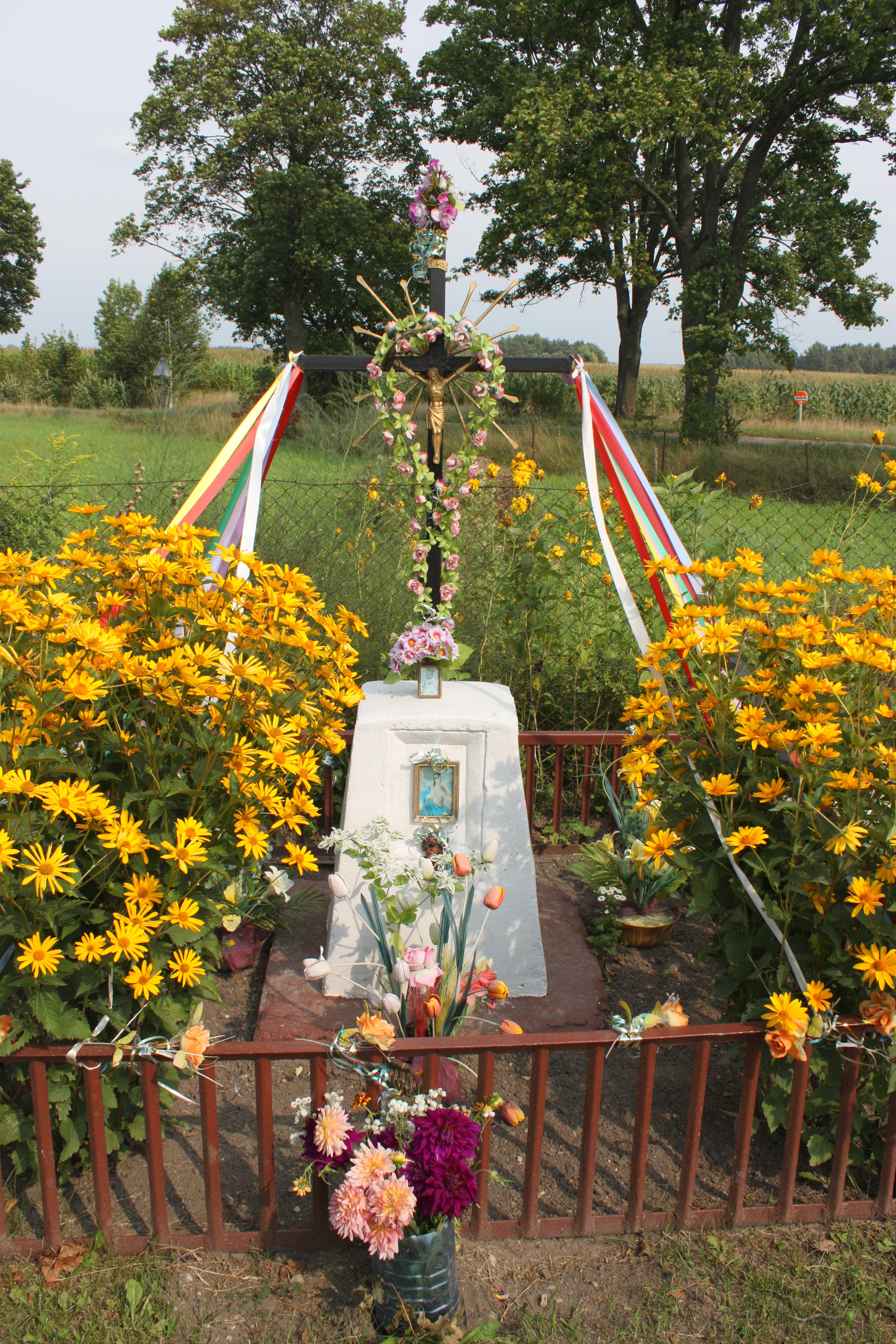 Shrine in Grądy.